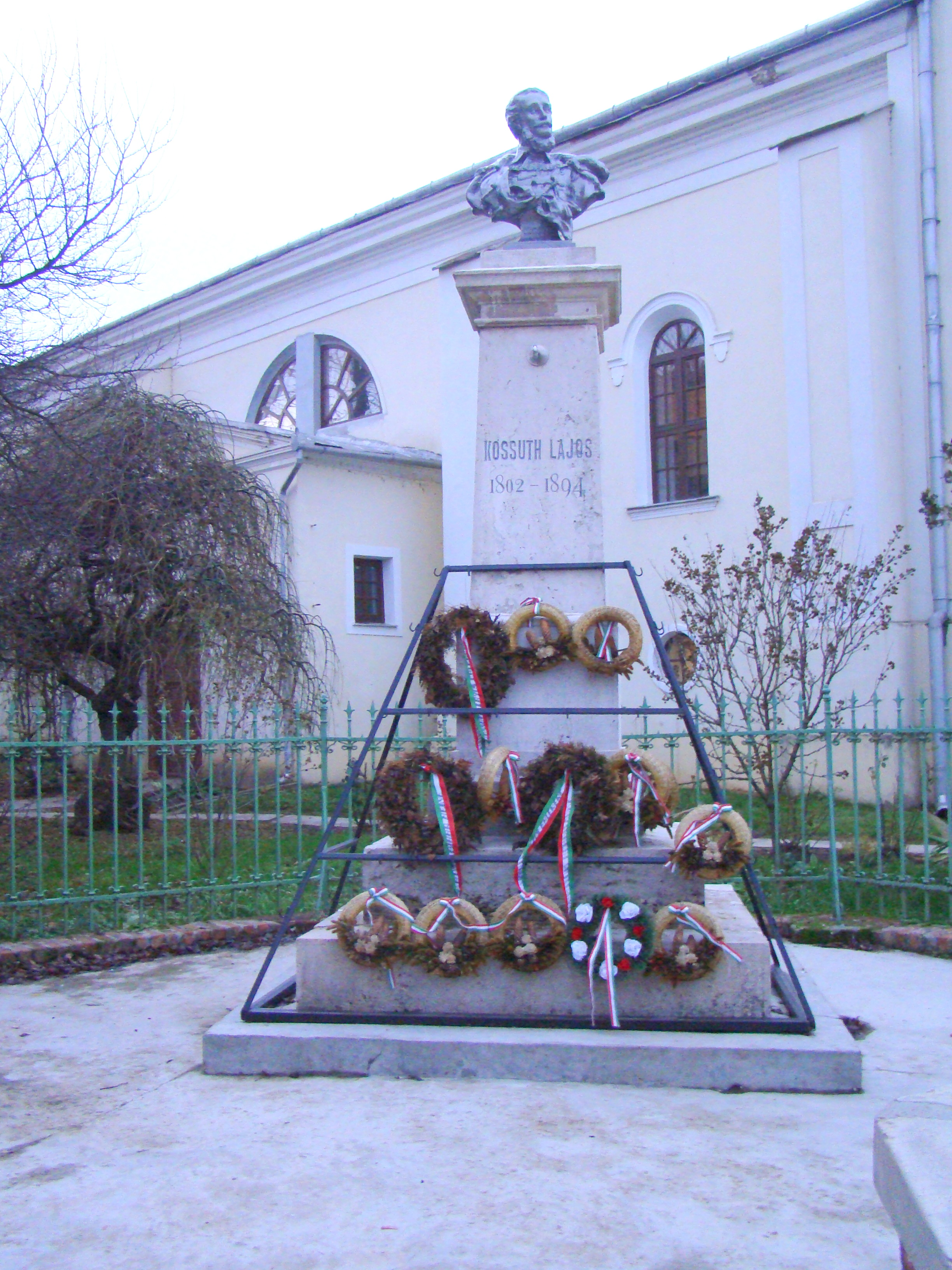 Diosig, Bihor county, Romania